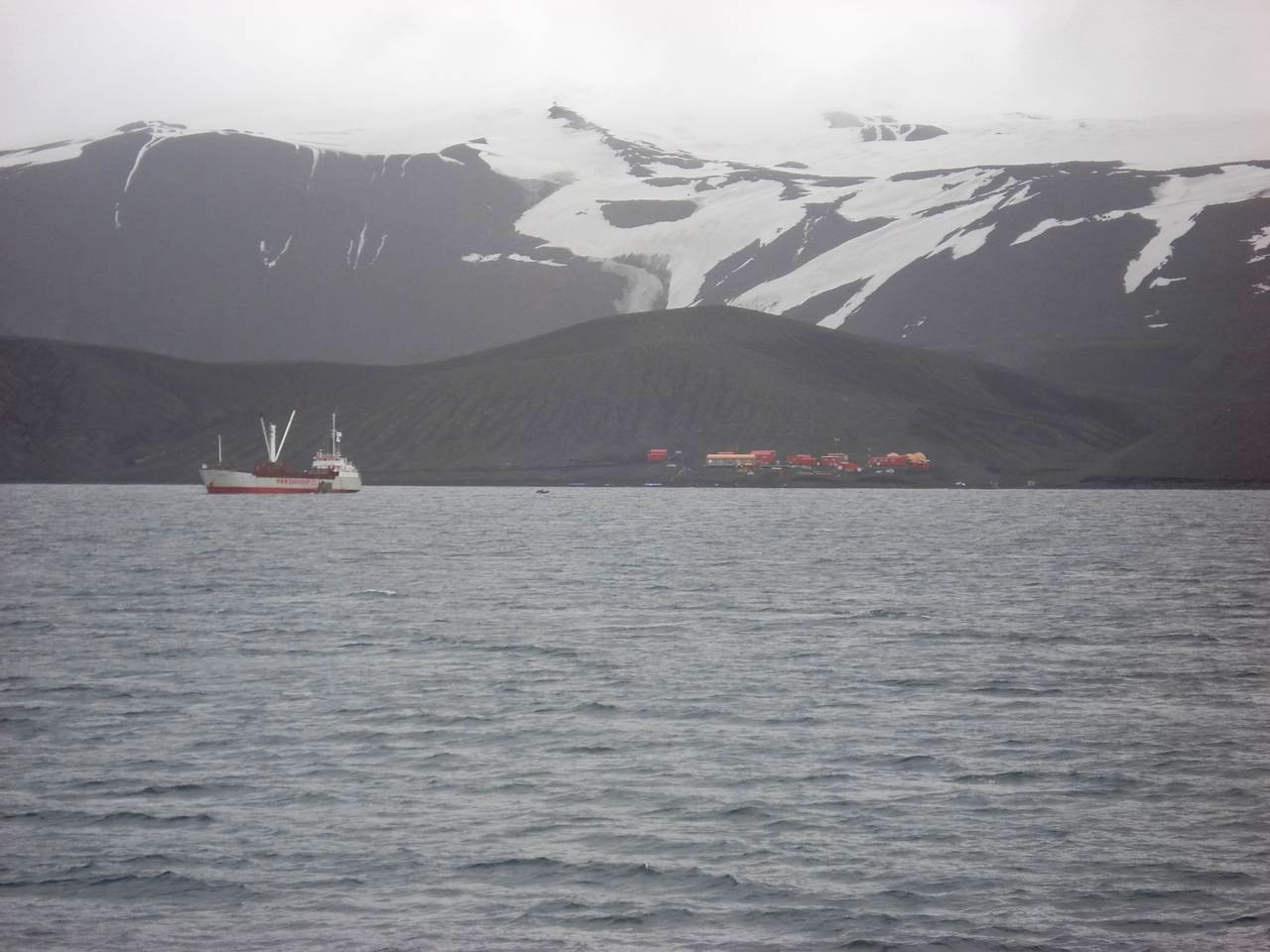 Spanish Gabriel de Castilla Station in Decepción Island in Antarctica. The Chilean cargo ship Samson is visible.